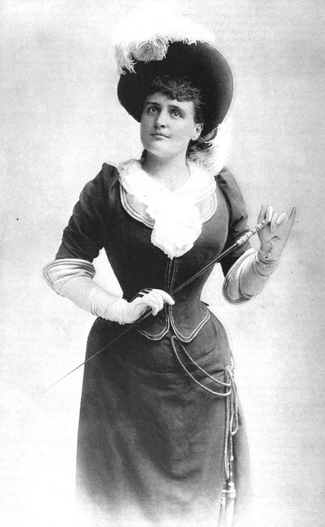 Portrait of actress Isabelle Urquhart, circa 1891.